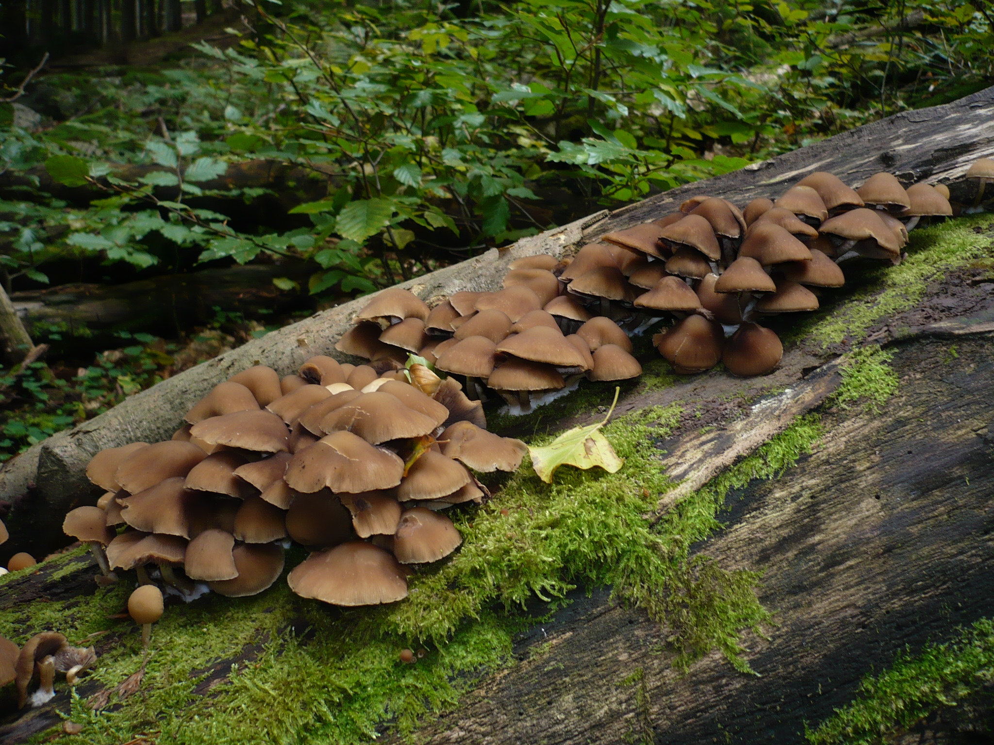 Psathyrella piluliformis (Bull.) P.D. Orton Image location: Pristine Forest Reservation Hojna Voda, Southern Bohemia, Czech Republic [admin – Sat Aug 14 02:04:57 +0000 2010]: Changed location name from ‘Pristine Forest Reservation Hojna Voda,Southern Bohemia,Czech Republic’ to ‘Pristine Forest Reservation Hojna Voda, Southern Bohemia, Czech Republic’ Recognized by sight For more information about this, see the observation page at Mushroom Observer.